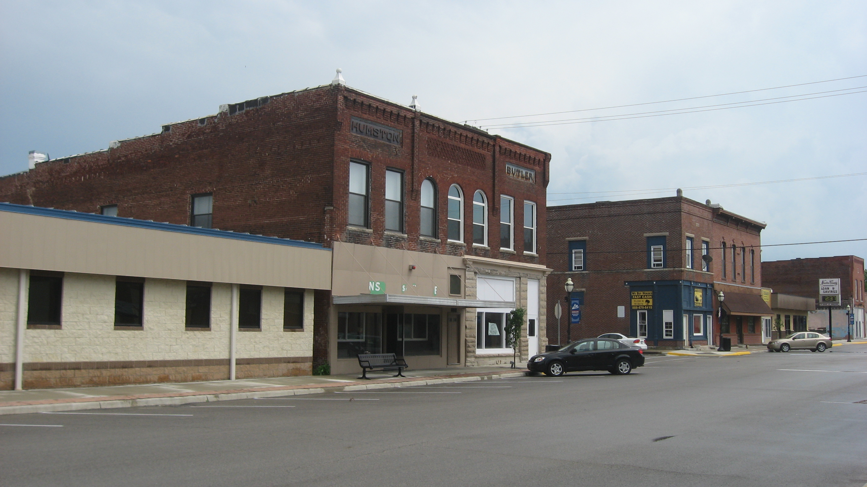 Buildings on the eastern sides of the 200 and 300 blocks of S. Newton Street in Goodland, Indiana, United States. The nearest brick building is the Humston and Butler Building, constructed at 219-221 Newton in 1900; the substantial building on the other corner is an unnamed building built in 1896 at 301 Newton.